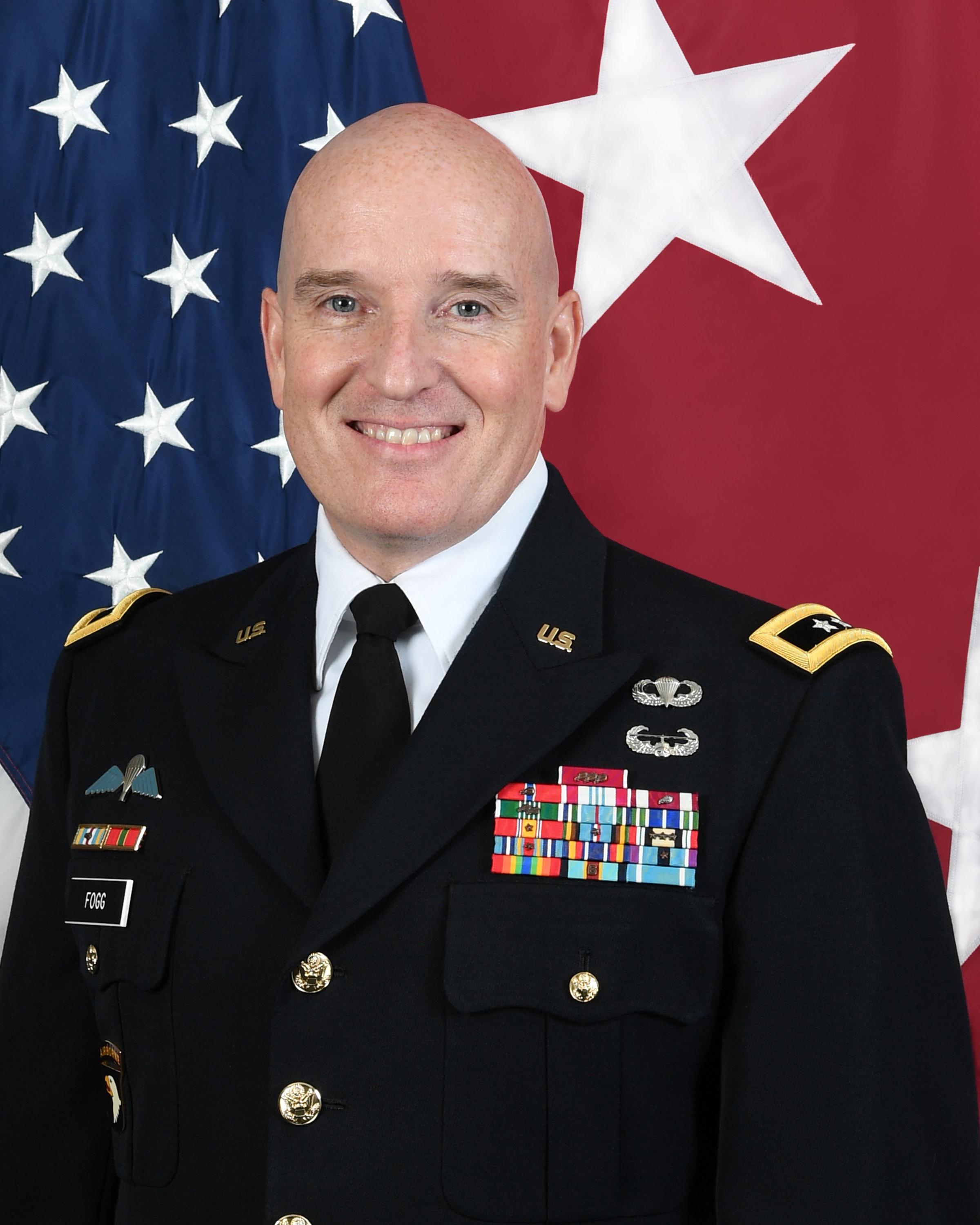 Command photo for MG Rodney D. Fogg